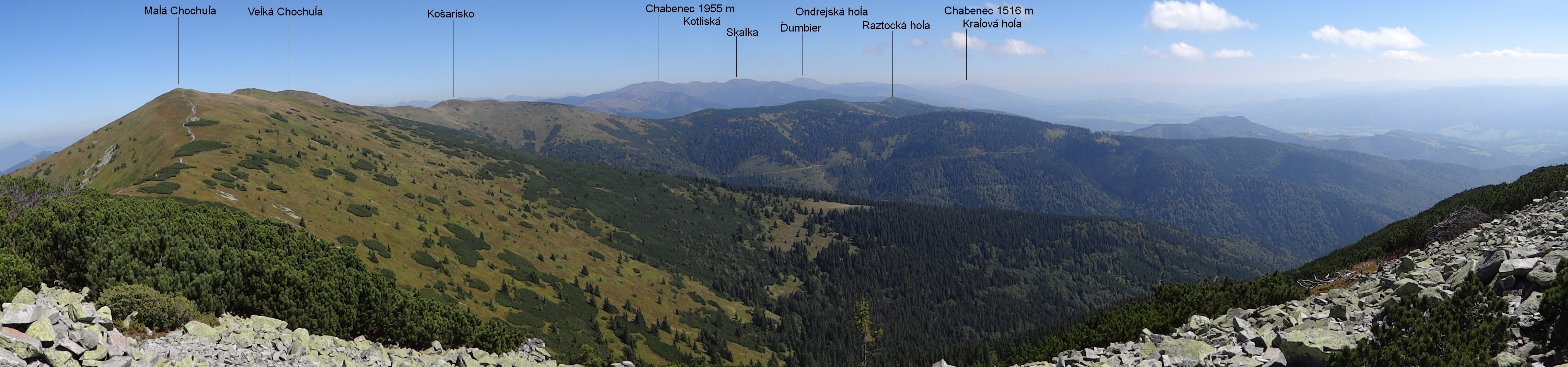 View from Prašivá